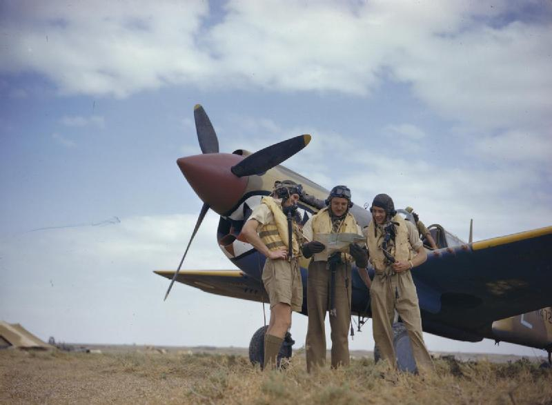 The Royal Air Force in Tunisia, May 1943 The CO of No 112 Squadron, Royal Air Force and his two Flight Commanders discuss a course. Squadron Leader G W Garton holds the map; the pilot on his right is believed to be Captain E C Saville, the 'A' Flight CO and the officer on his left is thought to be Flight Lieutenant L Usher, the 'B' Flight CO.